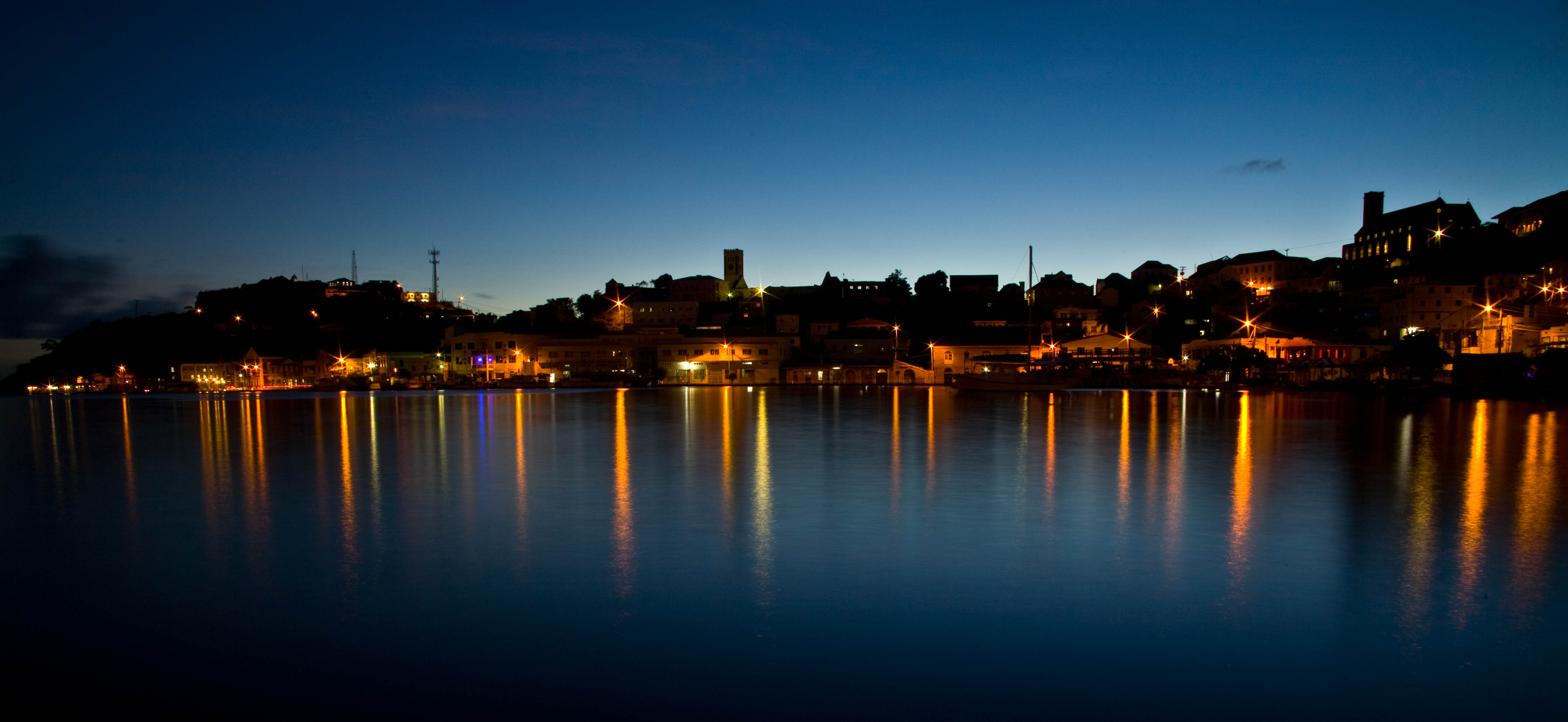 Carnage at the St. george's Grenada